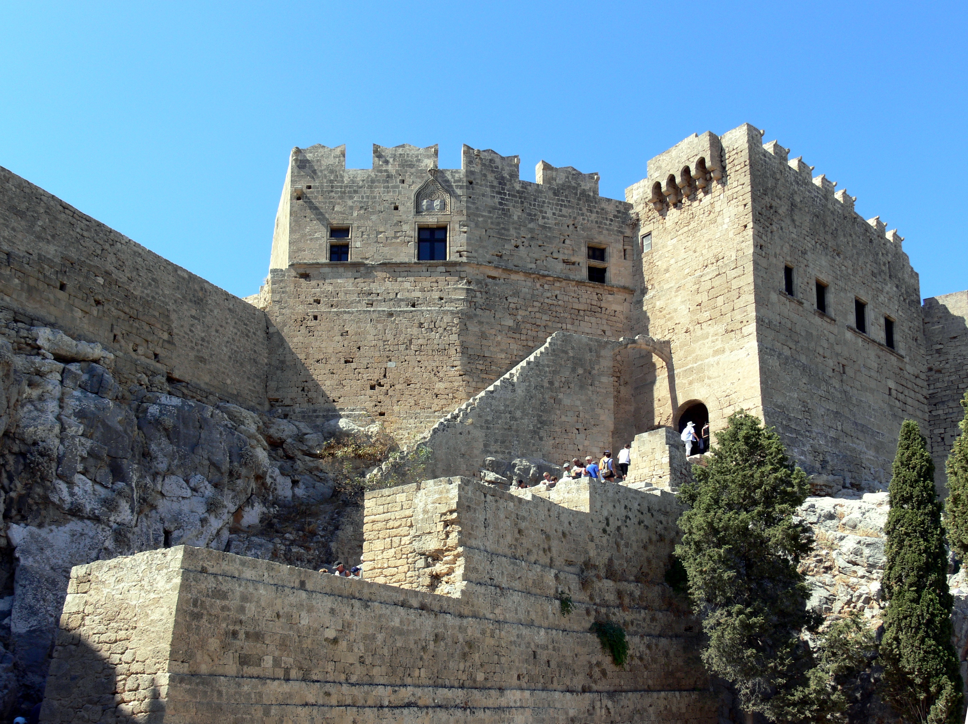 Entrance stairs to the castle of Lindos